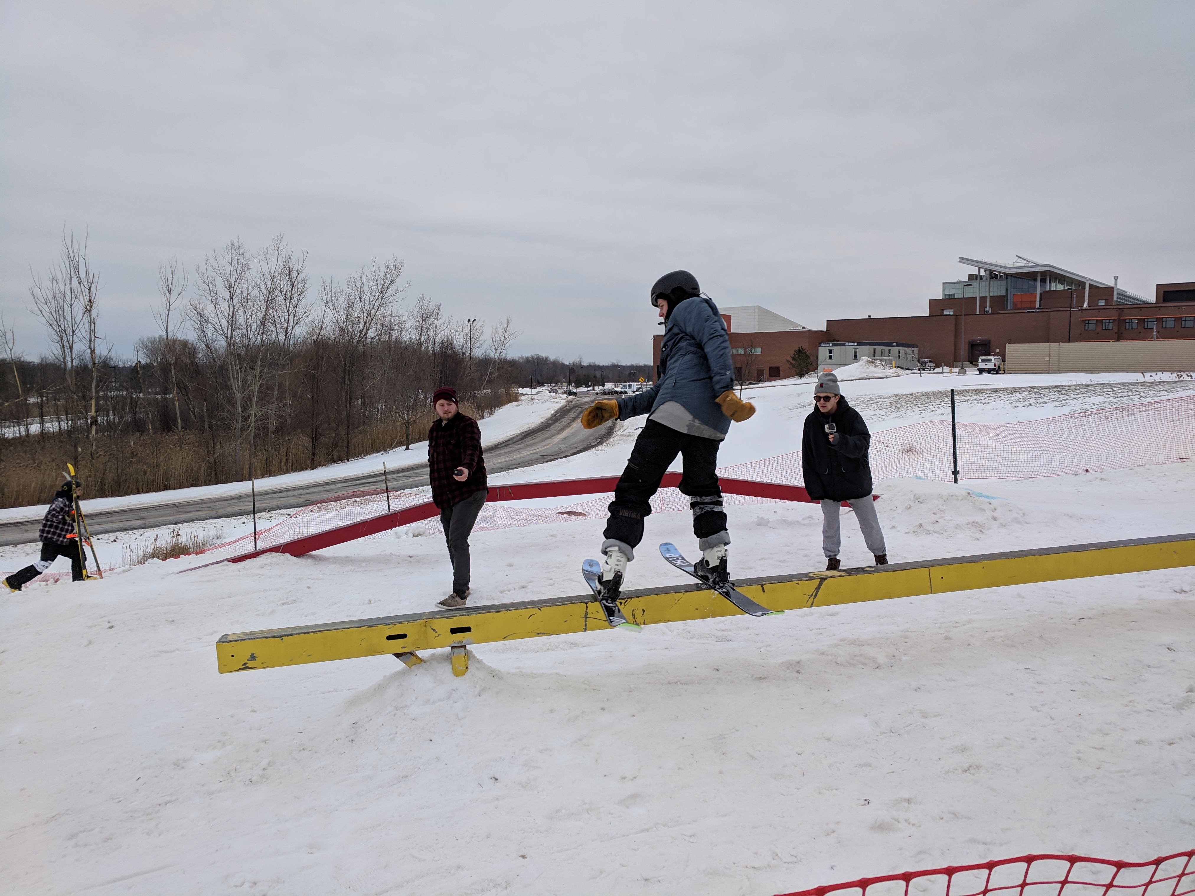 Skier rides a Grind rail in the Rail Jam miniature Terrain park at the 2019 FreezeFest at the Rochester Institute of Technology